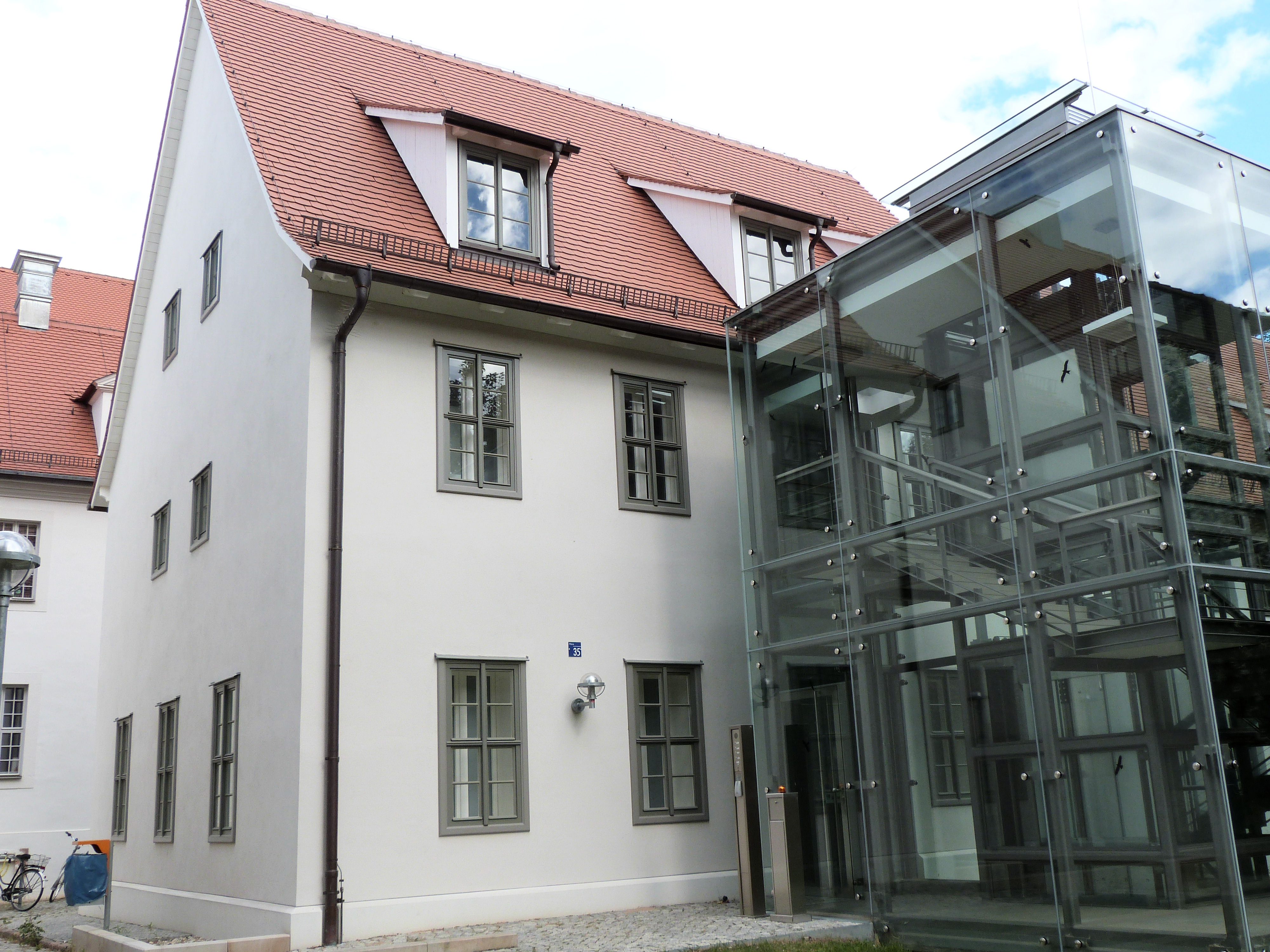 House 35, former outbuildings, Francke foundations in Halle (Saale), today Institute for Teacher Training